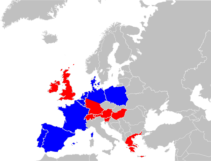 A map of the countries in Europe where Aldi operates, red: "Aldi Süd", dark blue:"Aldi Nord"